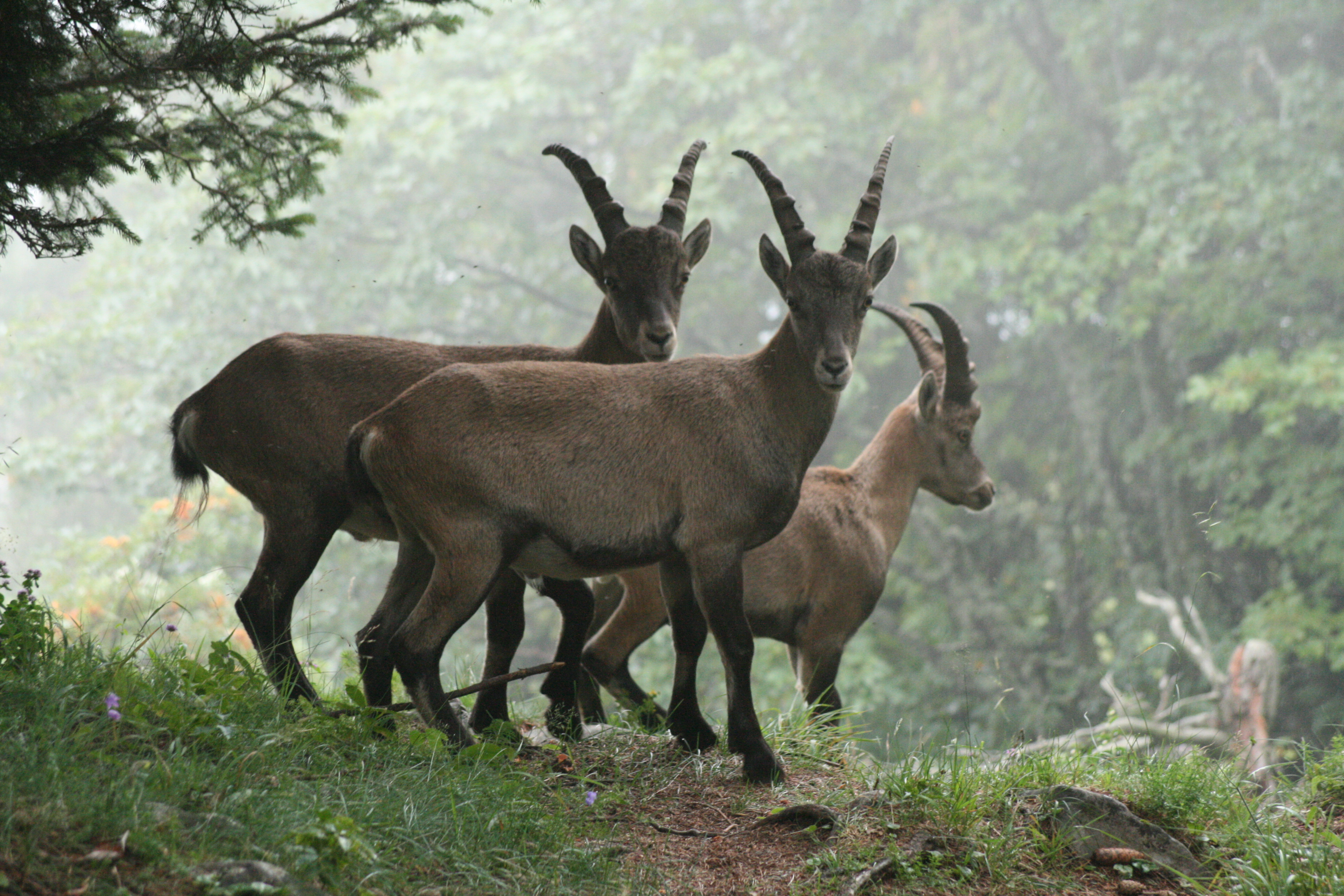 Alpine Ibex (Capra ibex) on "Rote Wand" mountain in Styria, Austria